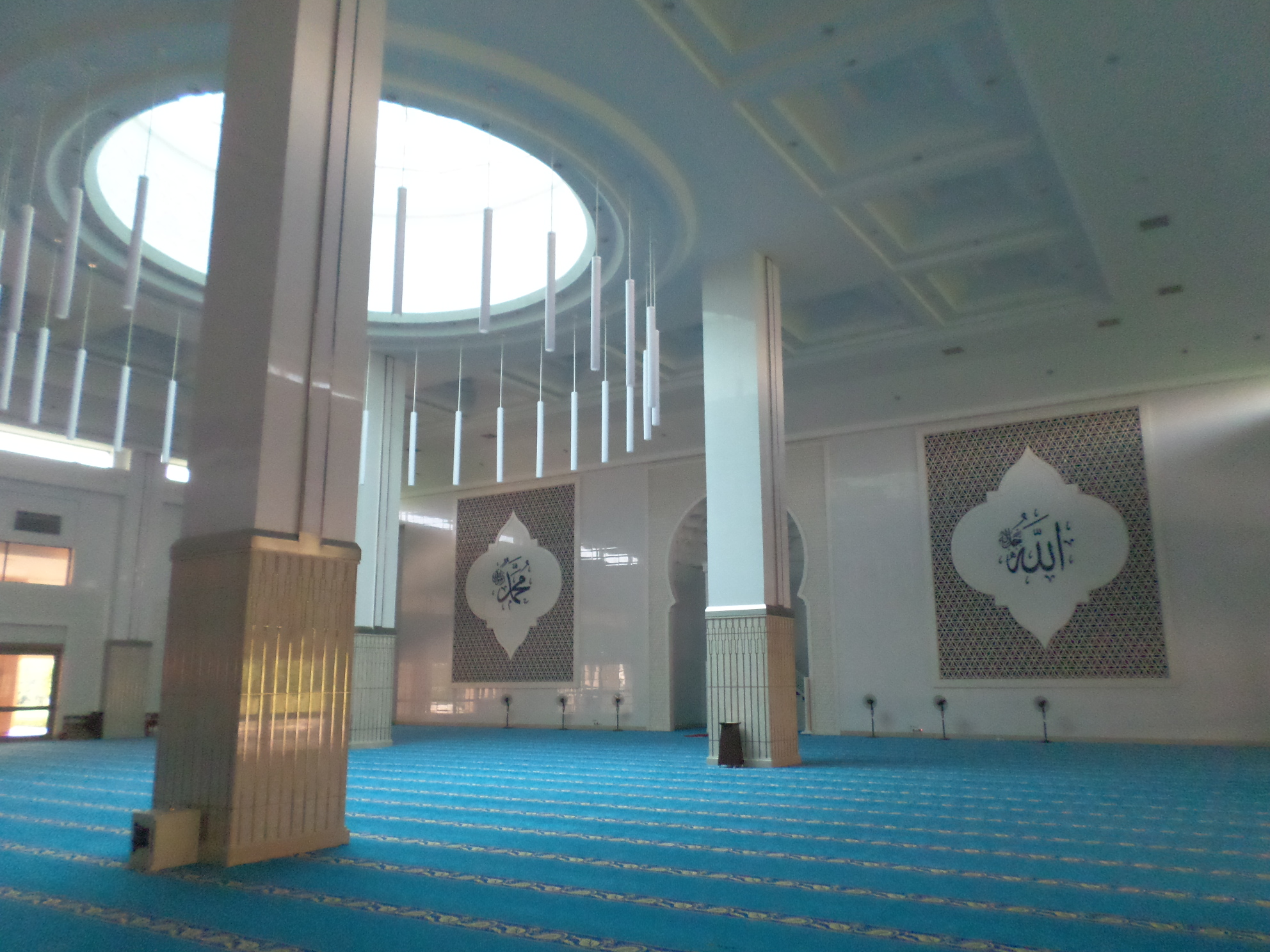 Kota Iskandar Mosque, Kota Iskandar, Nusajaya, Johor Bahru, Johor, Malaysia